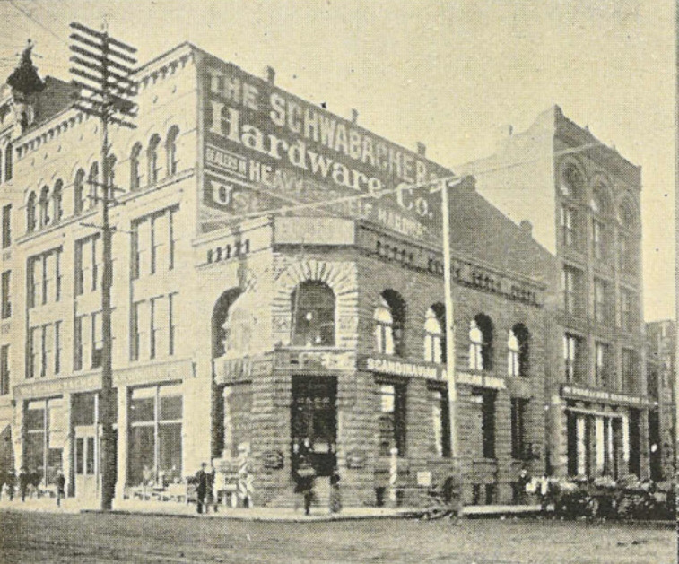 "Exterior Schwabacher Hardware Co.", one of a pair of photos collectively captioned "The Schwabacher Hardware Co." from brochure Seattle and the Orient (1900). The sign on the building says "The Schwabacher / Hardware Co. / Dealers in heavy and shelf hardware. / Us [the rest is obscured by the corner building]". The corner building was the Scandinavian American Bank and has a visible sign over the ground floor to that effect. A sign on the building to the right indicates that it is part of the Schwabacher Hardware Co. The building still survives as of 2007, although the company is long gone. The corner building now has another story. A similar image can be seen at Image:Seattle - Scandinavian American Bank - 1900.jpg.